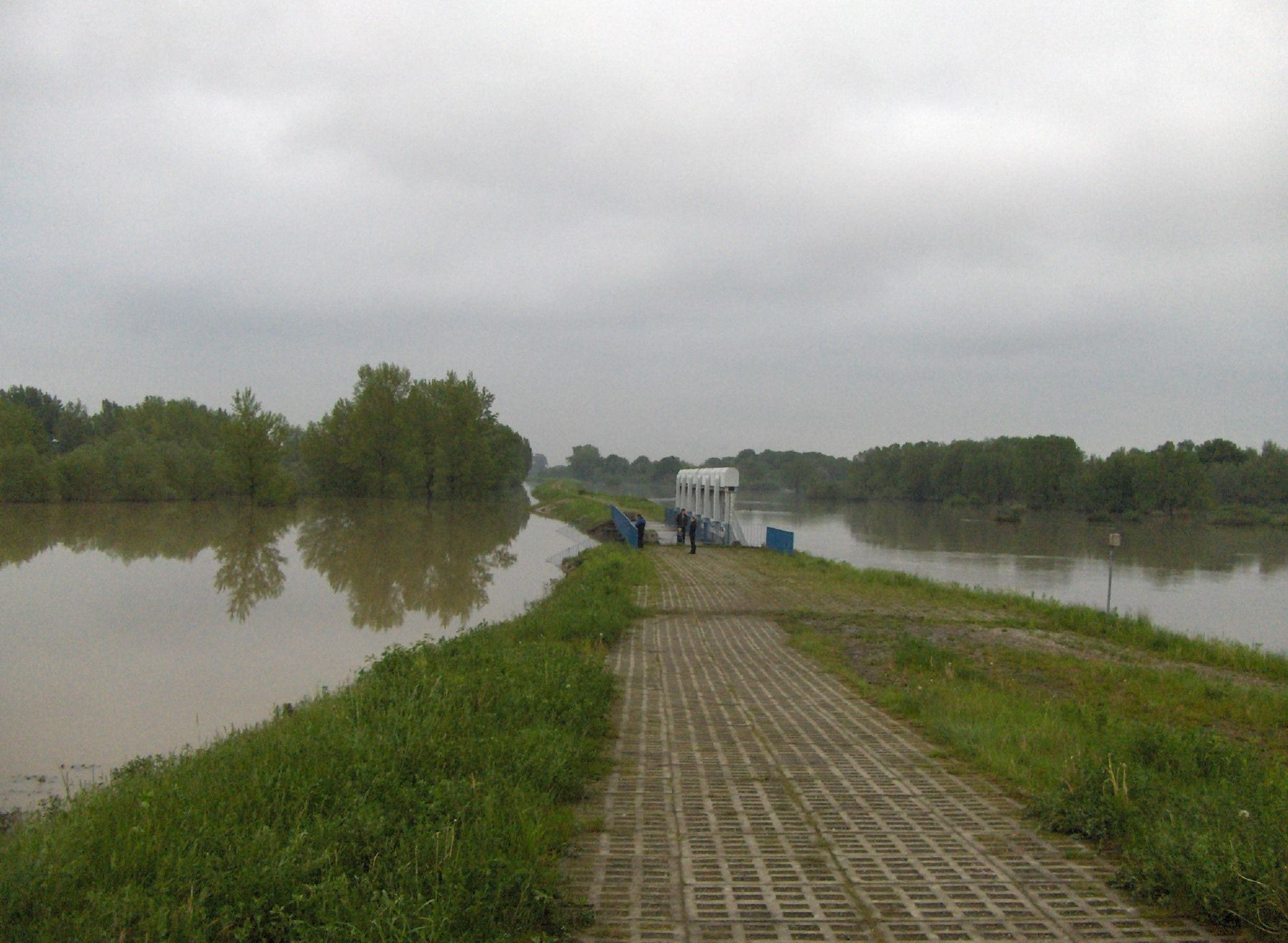 Polder Buków and Odra river in powiat wodzisławski, Silesia, Poland